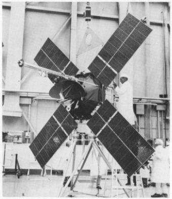 Inspection of Mariner 4.